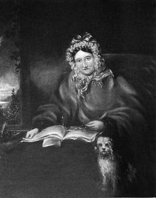 В. Кроубент, 1907., портрет Дороти Вордсворт из каснијег периода живота (нацрт са фотографије